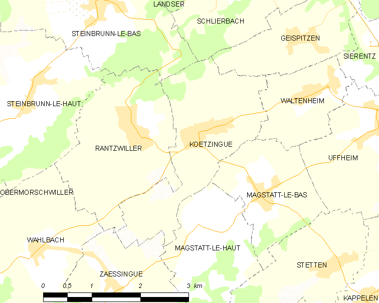 Map of French municipality